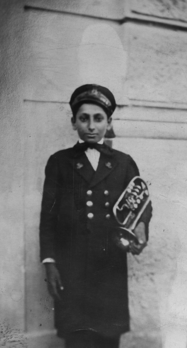 DeGrazia in Italy circa 1923